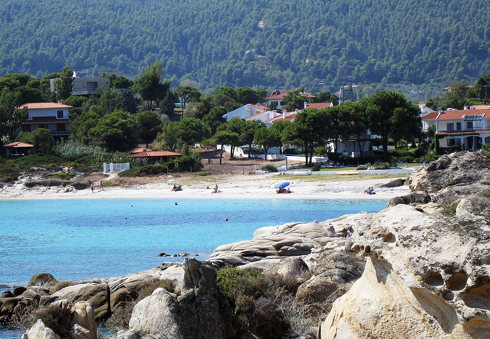 Grece Sithonia Vourvourou Beach